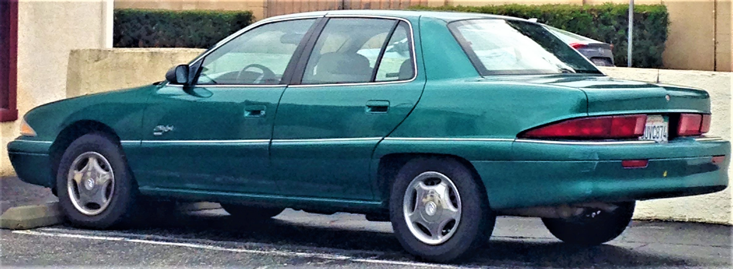 Buick Skylark (N-Body)